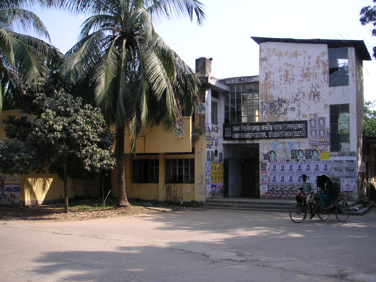 Dhaka University. Photo: Soman